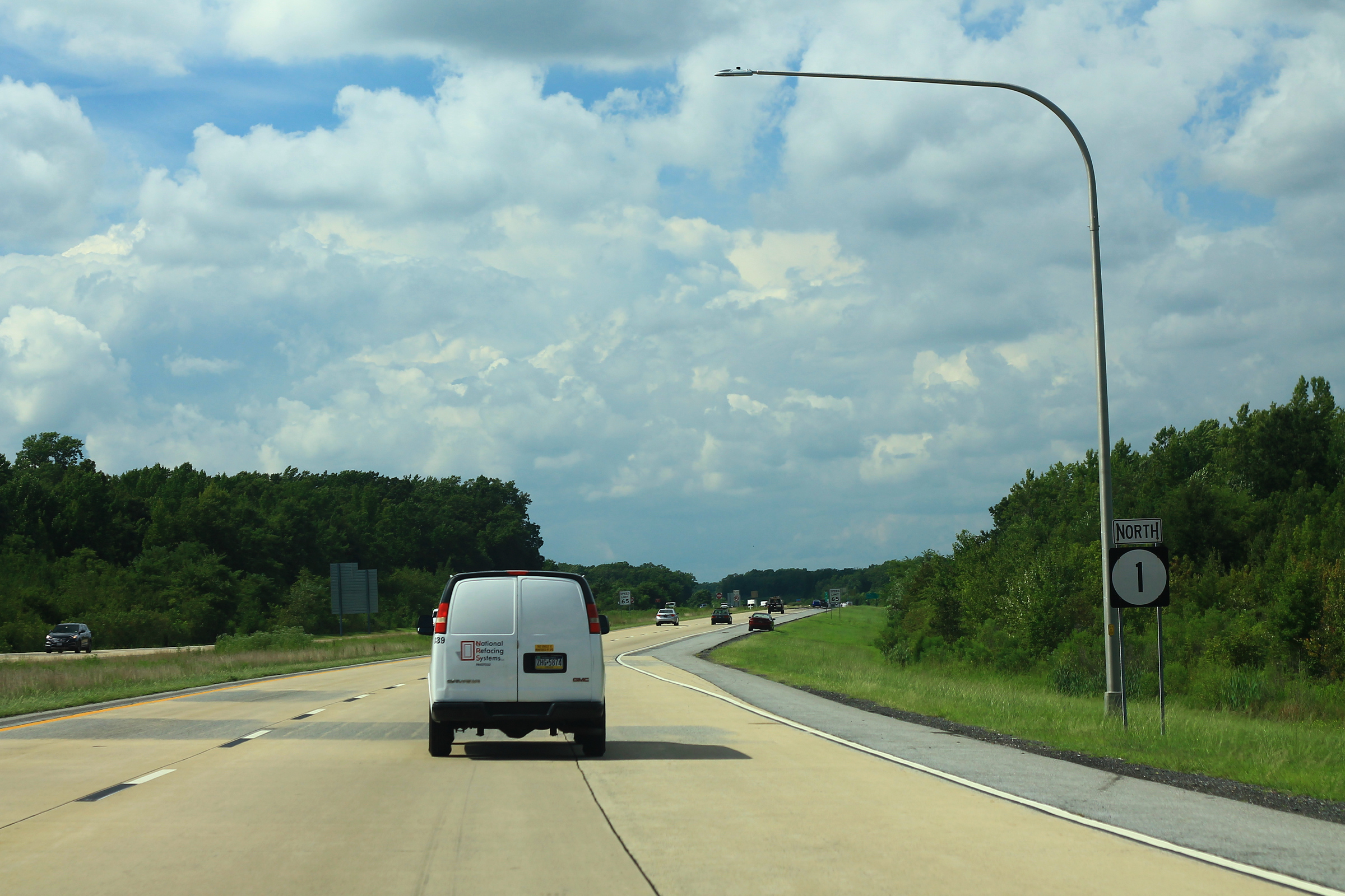 DE1 North Sign